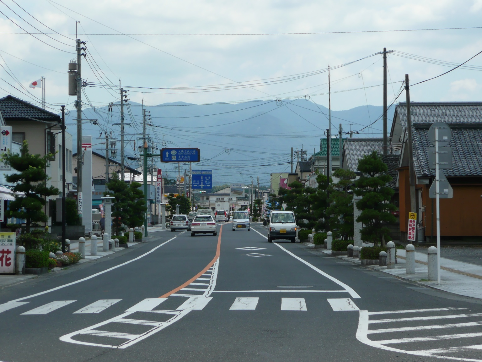 Kagoshima Prefectural Road 68 (Humoto, Aira, Kanoya City, Japan)